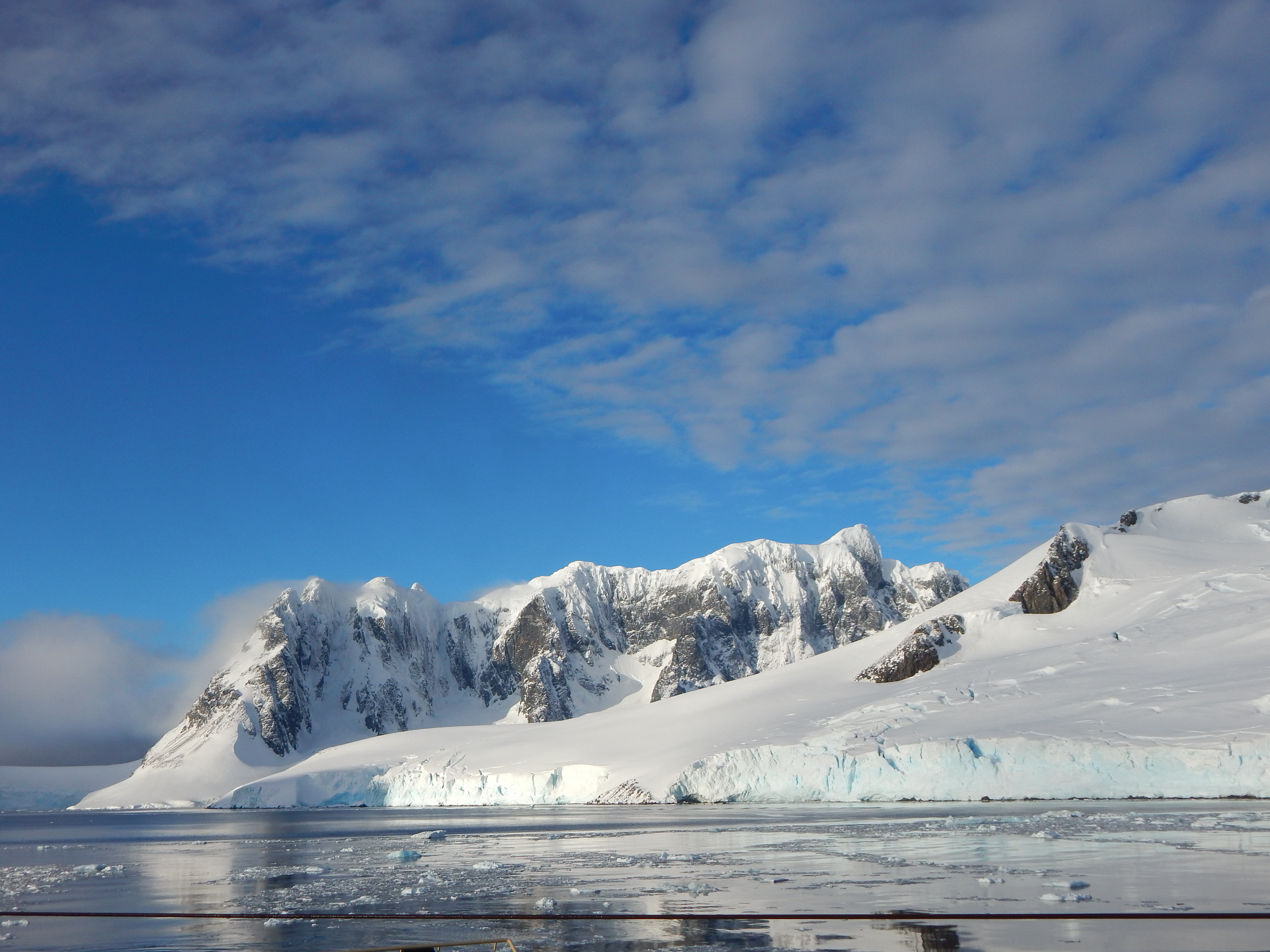 The Neumayer Channel, taken from the Laurence M. Gould